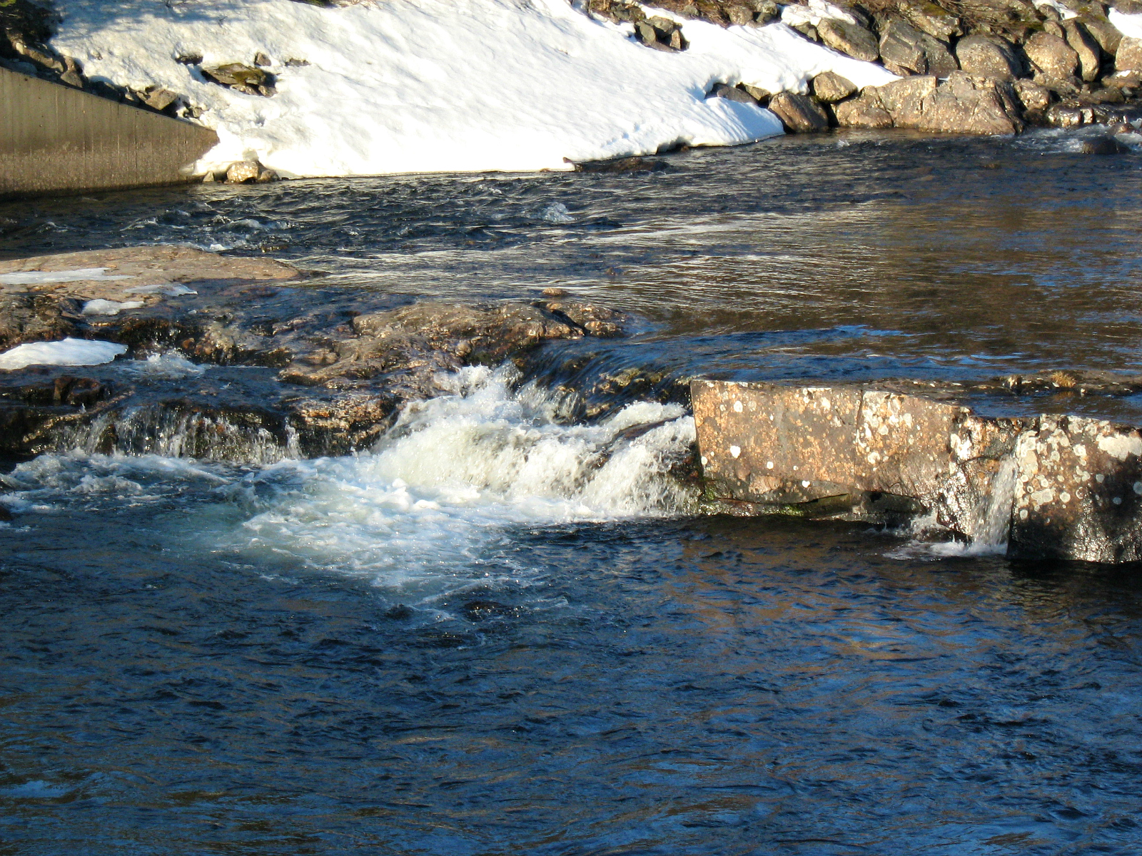 Storåne (great river) is a part of the Hallingdalselva (Hallingdal river). It flows through the valley and traditional district of Hallingdal in Buskerud County, Norway. In the valley, the river is often referred to as Storåne ("the great river"). In Hovet they name it always Storåne, not Hallingdalselva. A lot of its water is also running down from the Stolsvatnet lake. The river is popular for fly fishing.